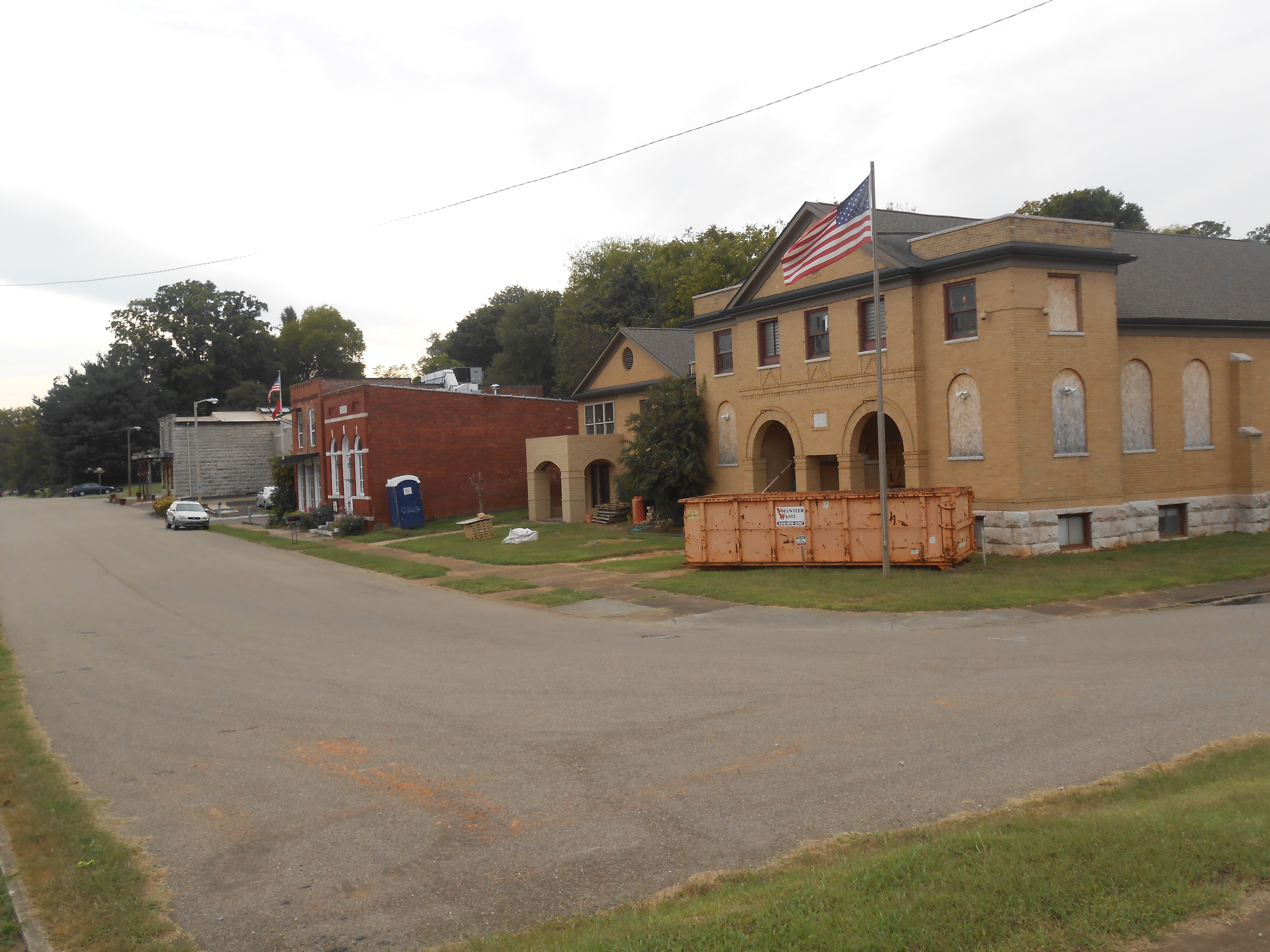 along Lake Ridge drive